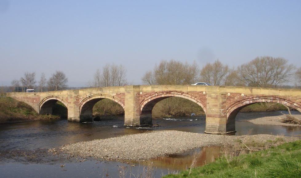 Bangor-on-Dee stone bridge spanning the River Dee.